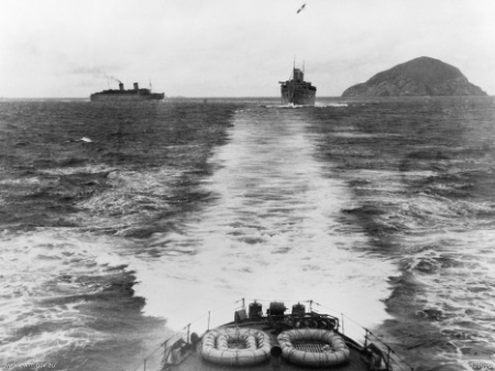 AWM Caption: BASS STRAIT. 1941-09-04. HMAS SYDNEY IN THE FOREGROUND ESCORTING CONVOY US.12A, COMPRISING THE QUEEN MARY (RIGHT) AND QUEEN ELIZABETH, PAST WILSON'S PROMONTORY ON THE VICTORIAN COAST.